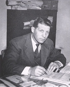 Nebraska Cornhuskers football coach Glenn Presnell